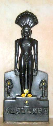 Idol of Parsva, 23rd Jain Tirthankara, at Mt. Shatrunjay, Gujarat